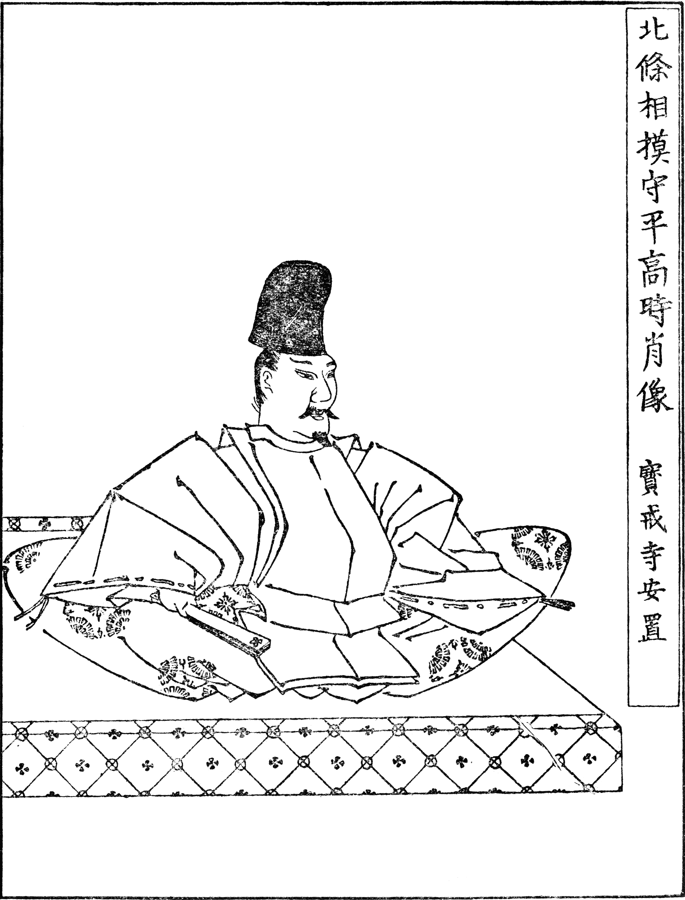 Portrait of Hōjō Takatoki